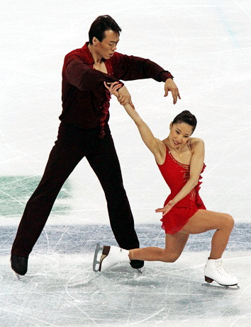 Shen Xue and Zhao Hongbo at the 2010 Winter Olympics (LP).